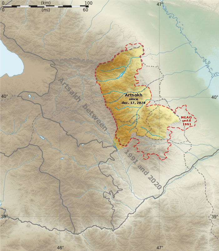 Topographic blank map of Nagorno-Karabakh (de facto situation)